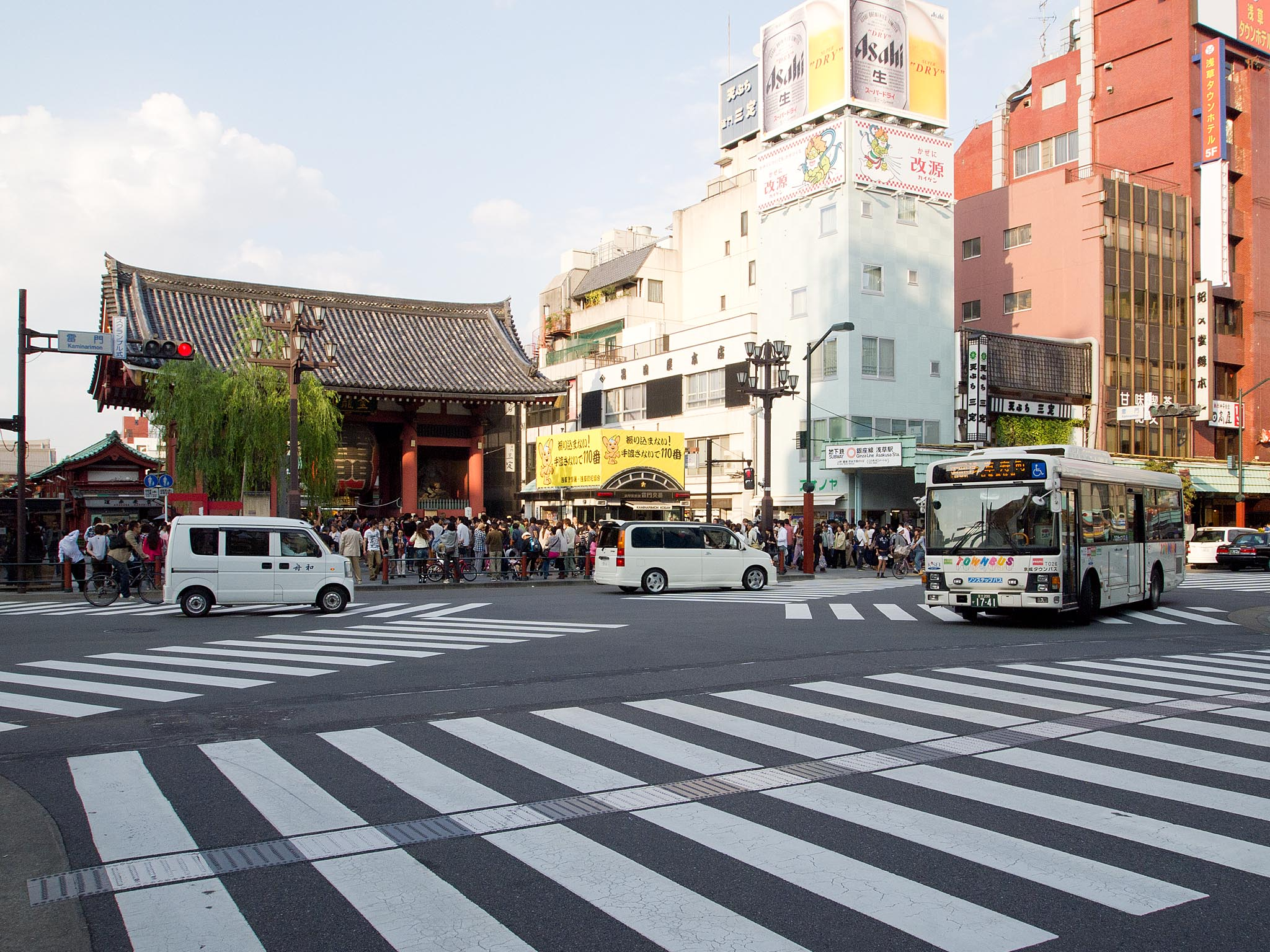 Keisei Town Bus "Ari 01" route, Arrived at Asakusa. Model: Isuzu Erga Mio LR234J2 License plate: TKA200 KA1741 Place: Kaminarimon, Taito Ward, Tokyo Japan